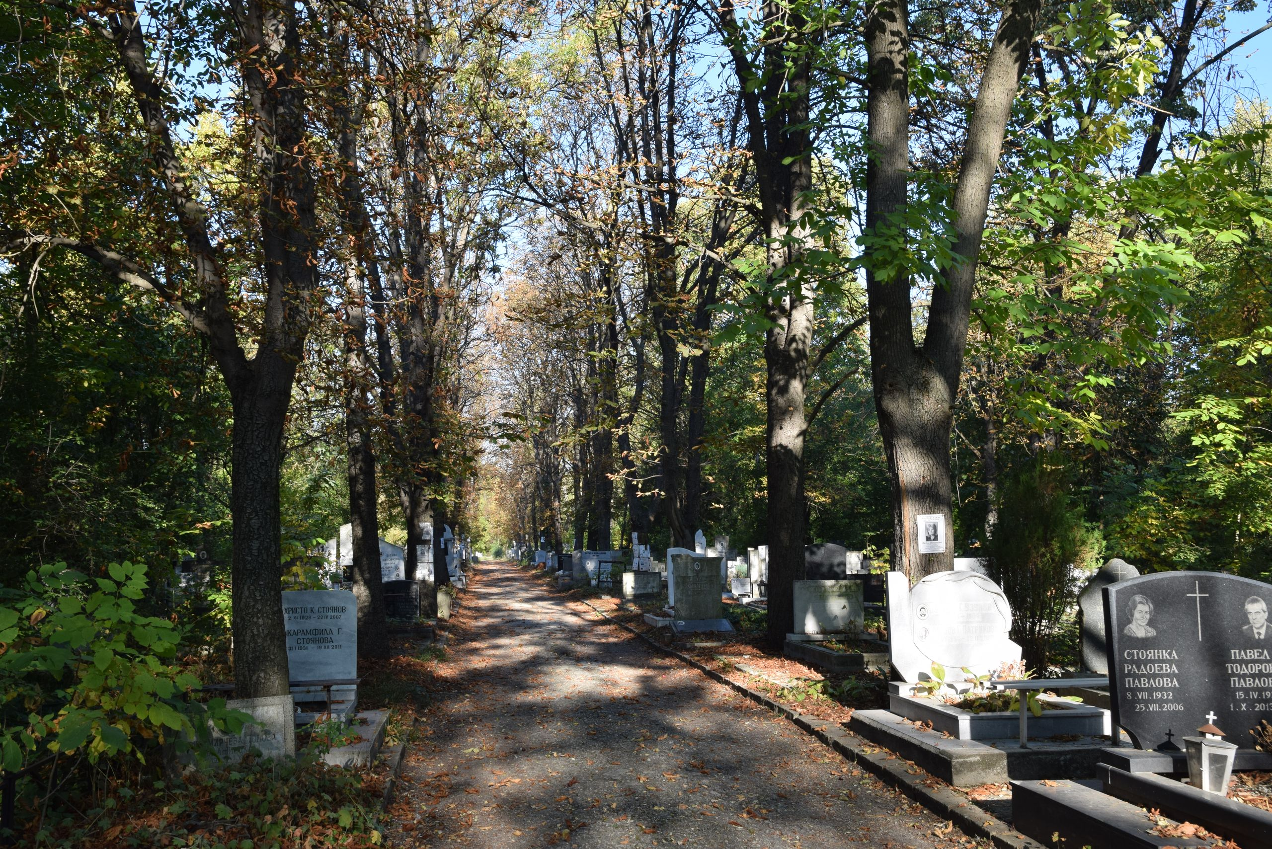 Central Sofia cemetery